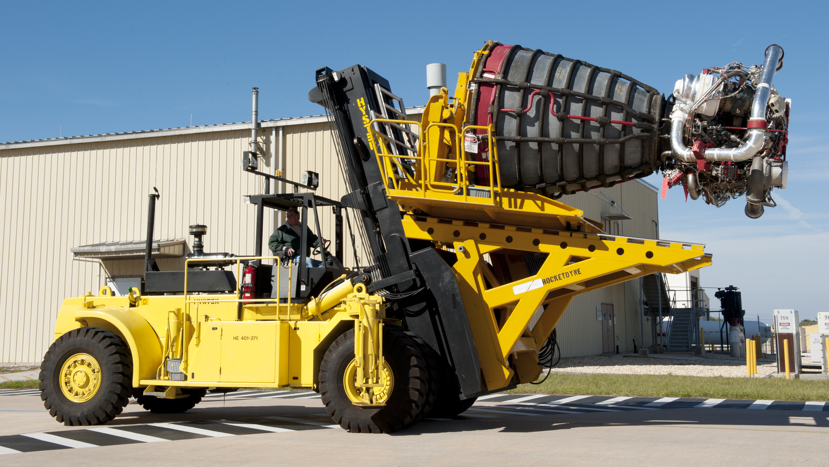 A Hyster forklift transports engine #2, the last of shuttle Atlantis' three main engines, from the Space Shuttle Main Engine (SSME) Shop to Orbiter Processing Facility-1 at NASA's Kennedy Space Center in Florida. Inside the processing facility, the engine will be installed in the shuttle. Each engine is 14 feet long, weighs about 6,700 pounds, and is 7.5 feet in diameter at the end of the nozzle. This is the final planned engine installation for the Space Shuttle Program. Atlantis is being prepared for the "launch on need," or potential rescue mission, for the final planned shuttle flight, Endeavour's STS-134 mission.